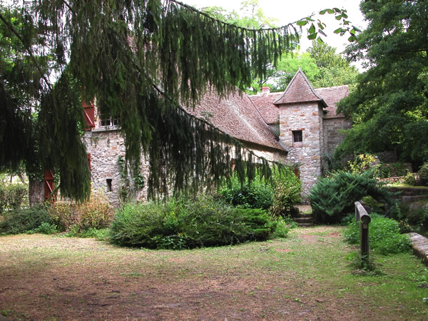 watermill Marangis, France